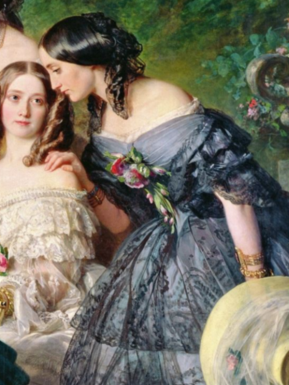 Portrait of Anne Eve Mortier de Trévise, by Franz Xaver Winterhalter (detail of "The Empress Eugenie Surrounded by her Ladies in Waiting").